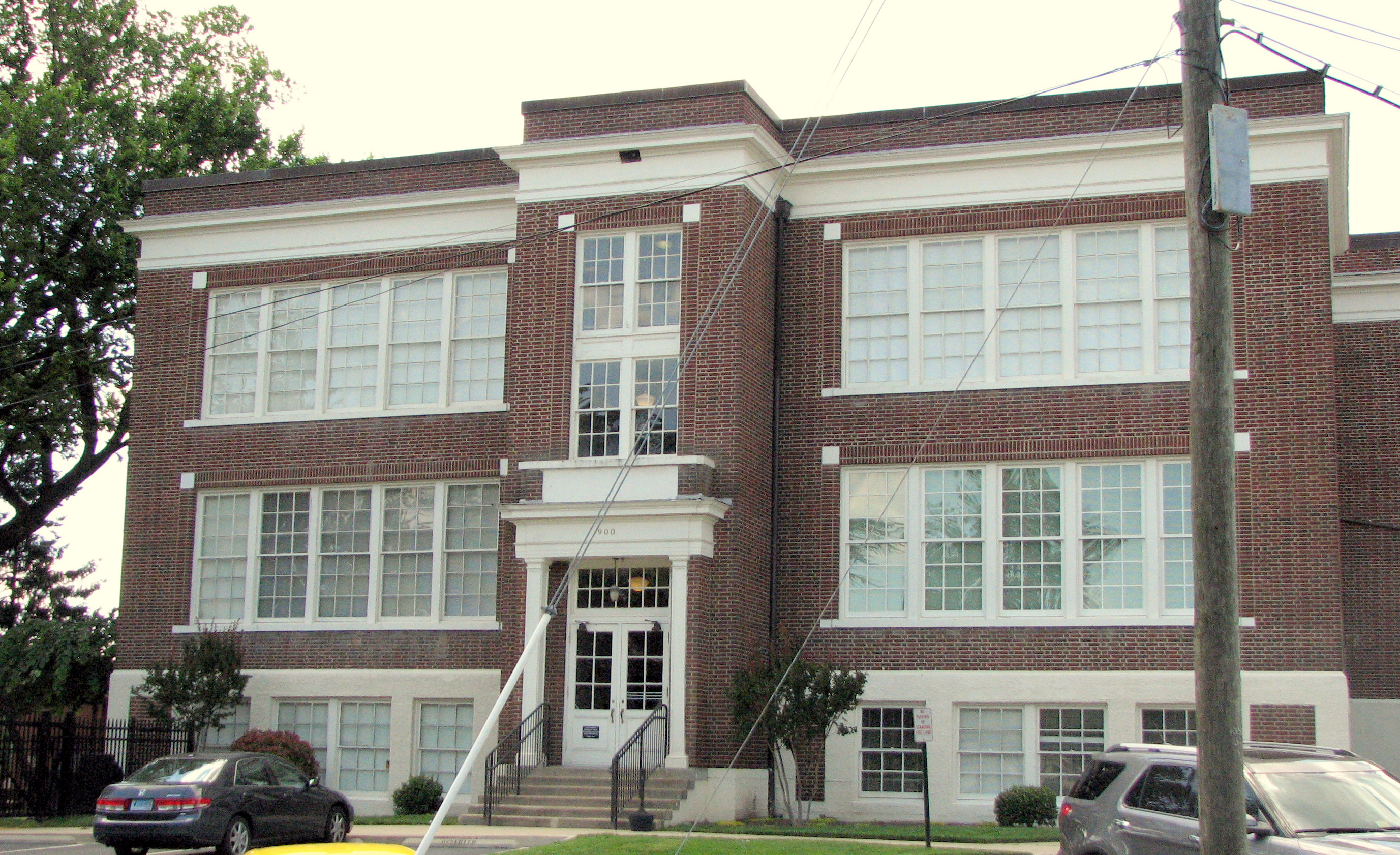 Matthew Fontaine Maury School in Fredericksburg, Virginia. Listed on the National Register of Historic Places.